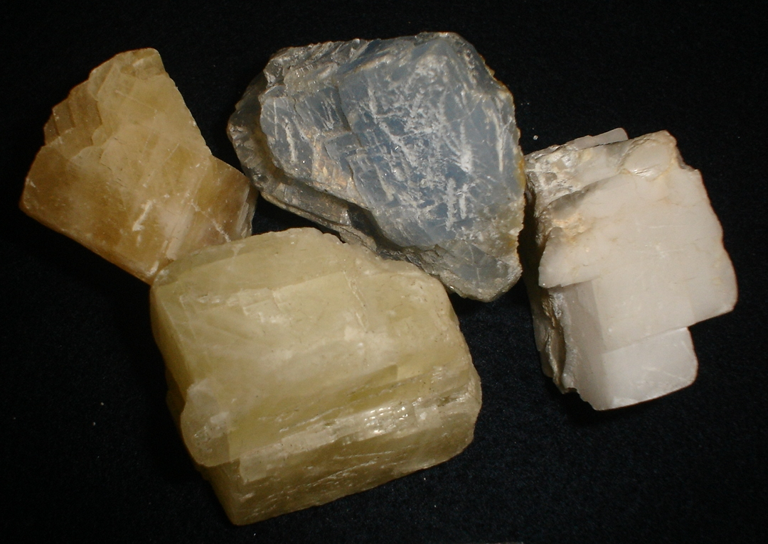 Collection of coloured calcite crystals